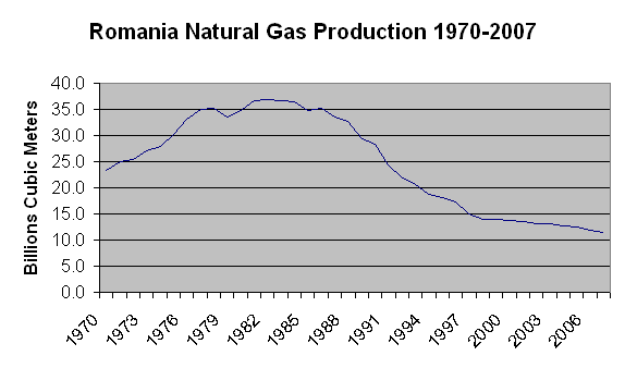 Romania's gas production data came from BP Statistical Review of World Energy June 2008 [1] I created the graph from the data.